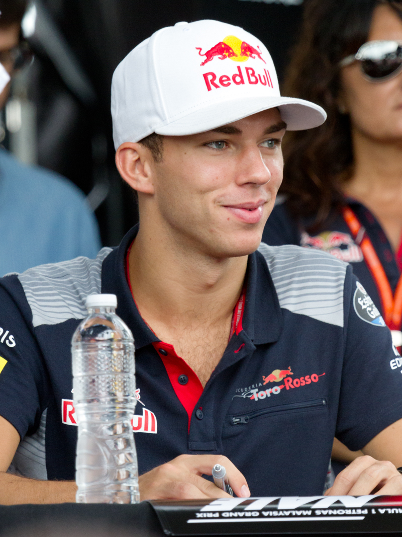 Formula One 2017 Rd.15 Malaysian GP: Pierre Gasly (Toro Rosso) at autograph session